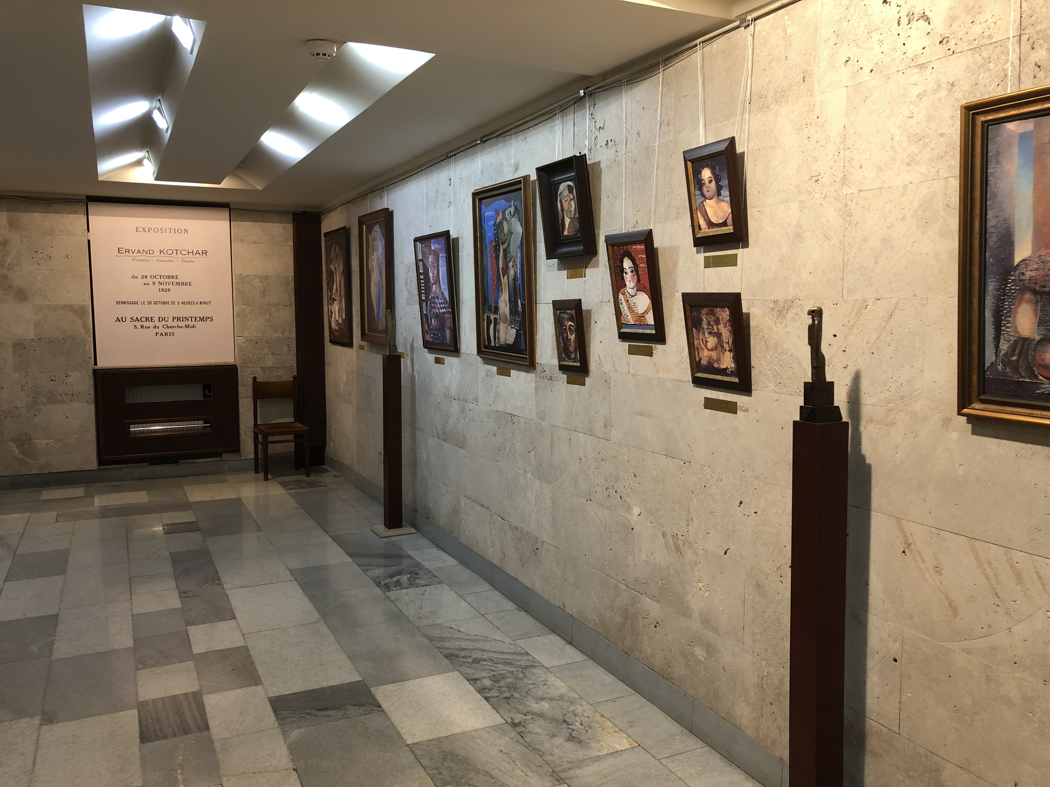 Interior view of one of the galleries of Yervand Kochar Museum in Yerevan.